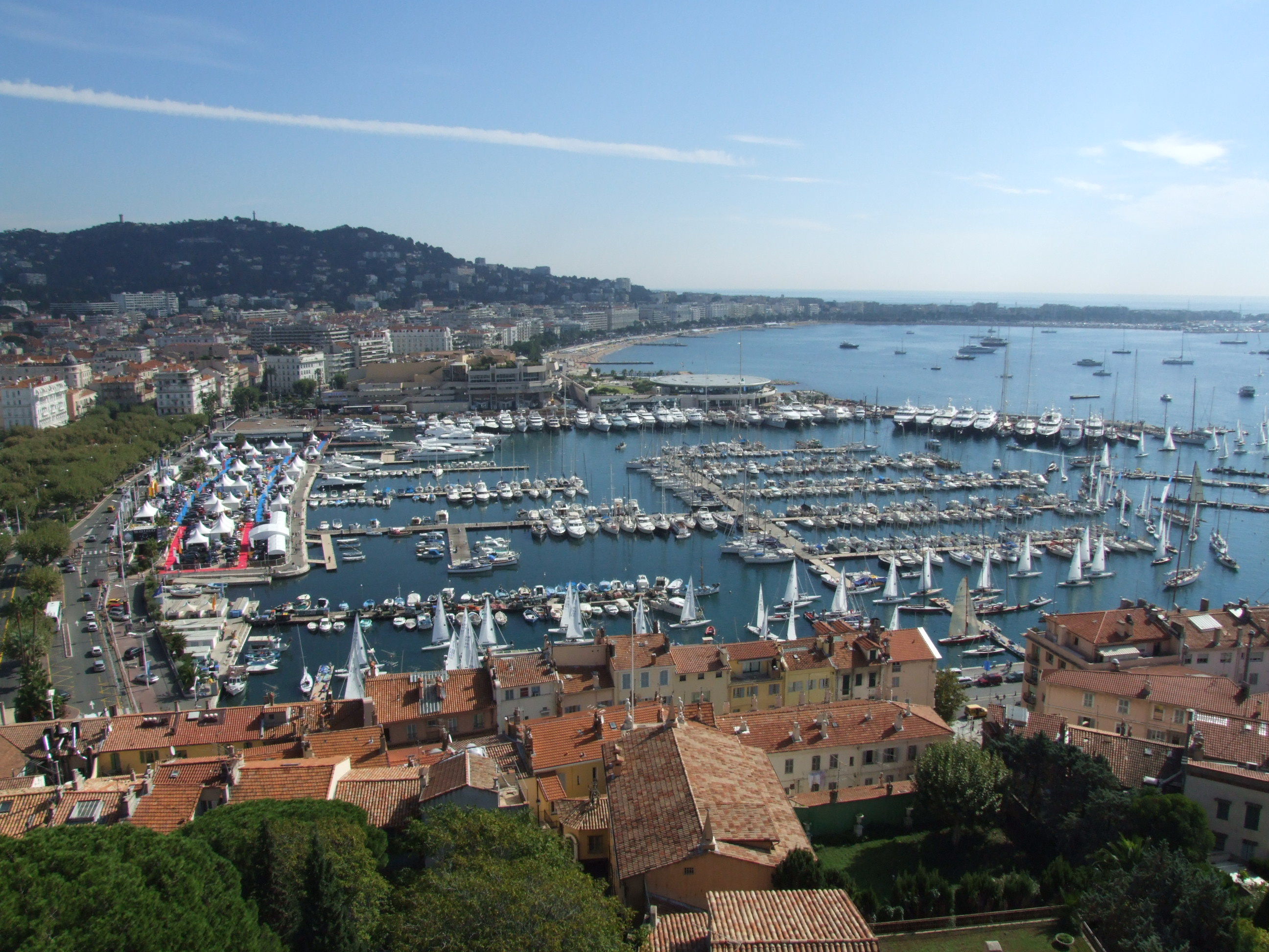 Cannes Harbor, Cannes, FRANCE